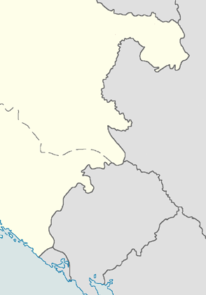 Shows the eastern portion of the Independent State of Croatia with borders 1941-1943 and the German-Italian demarcation line